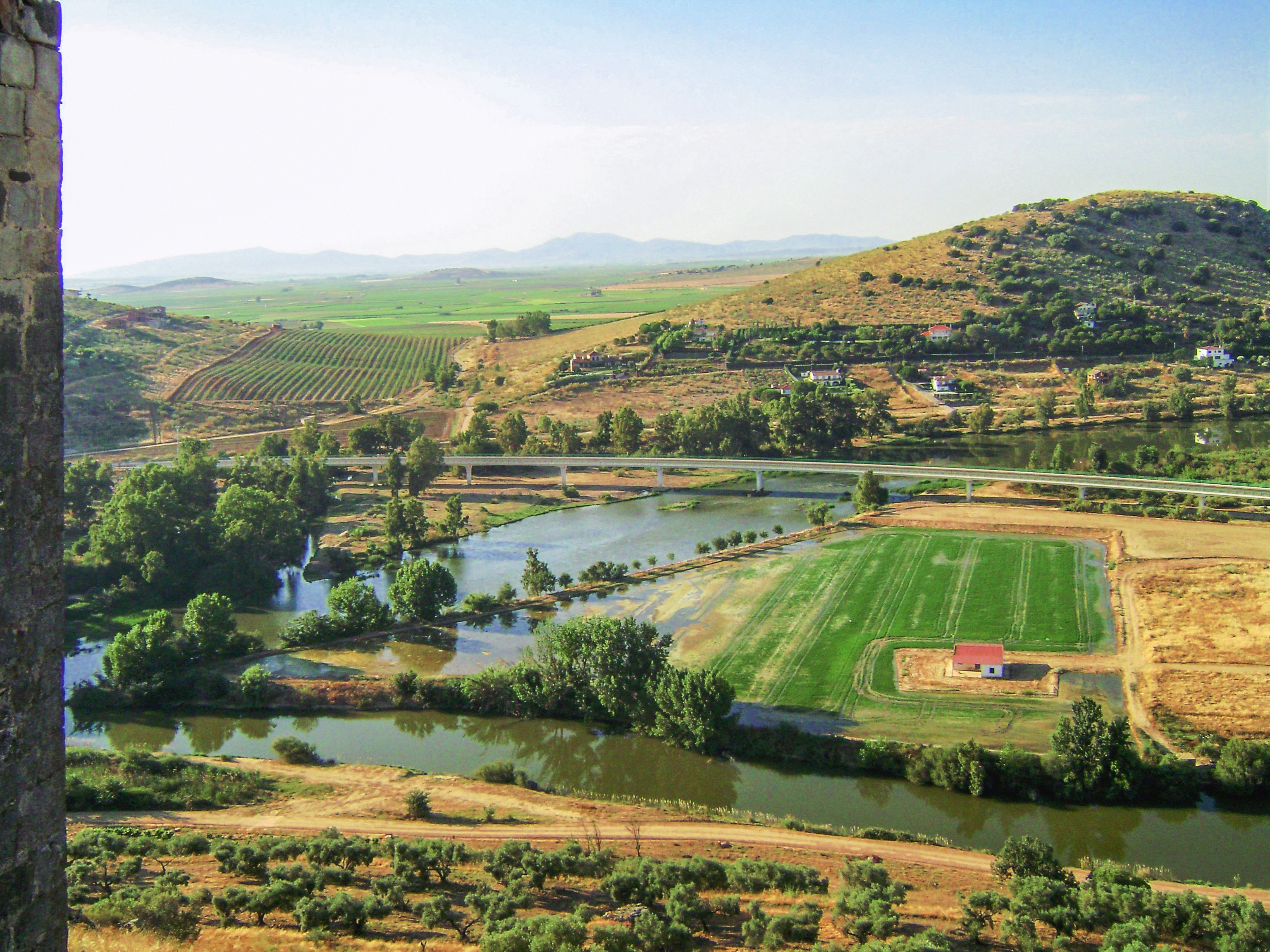 This is a photography of a Site of Community Importance in Spain with the ID: ES4310026. Natura2000 entry, EEA entry